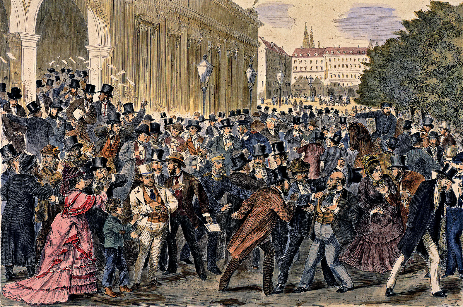 Black Friday on May 9, 1873 at the Vienna stock exchange, wood engraving from 1873